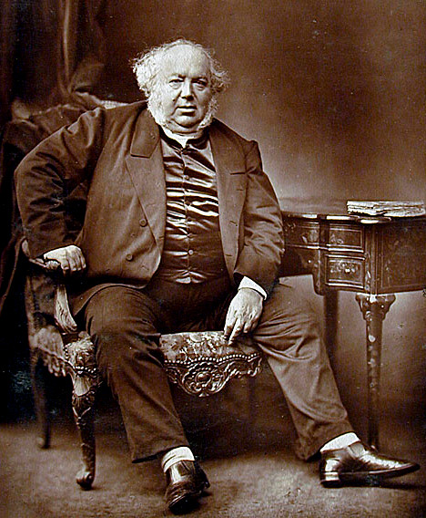 Portrait of Jules Janin (1804-1874)